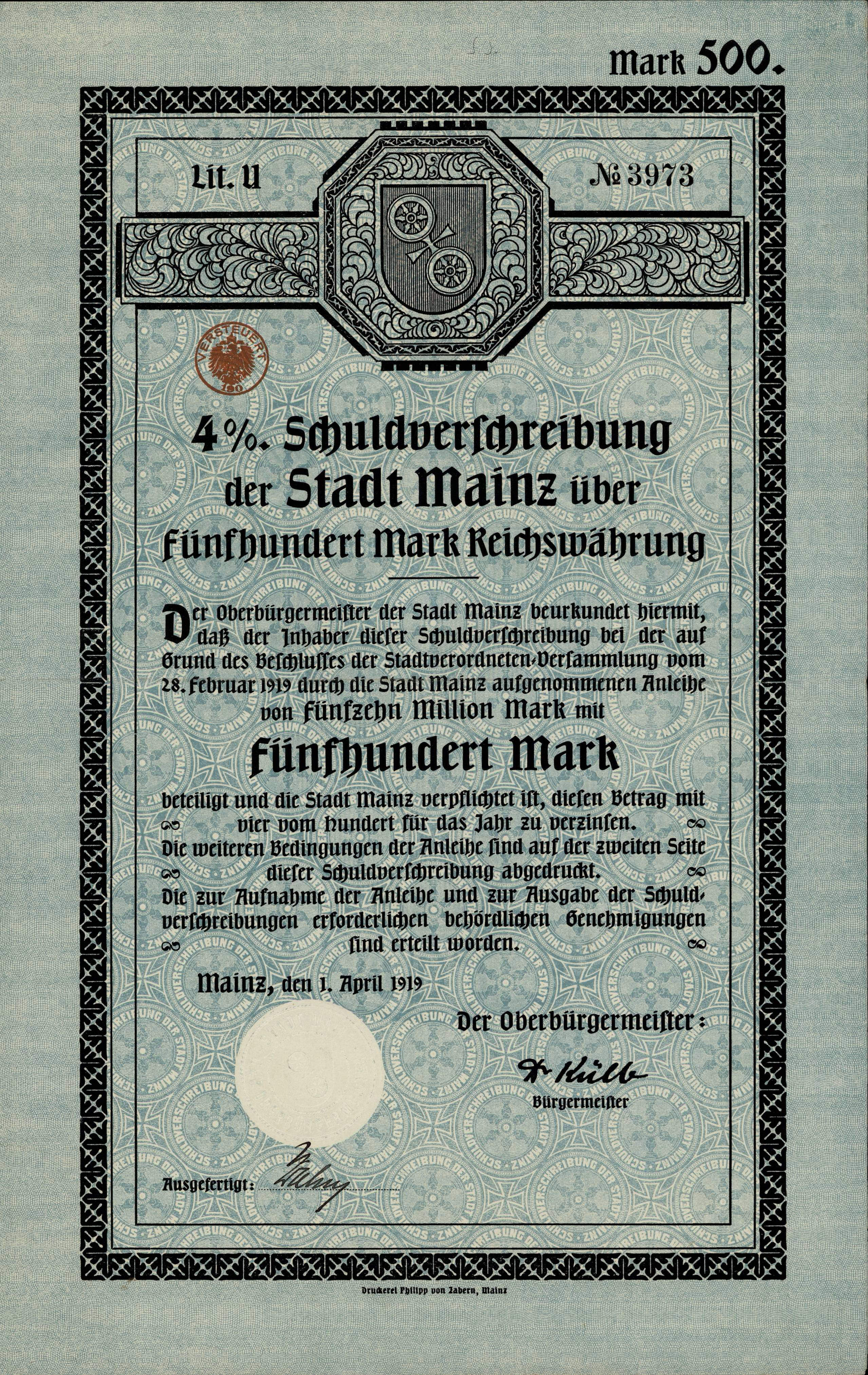 Bond of the City of Mainz, issued 1. April 1919